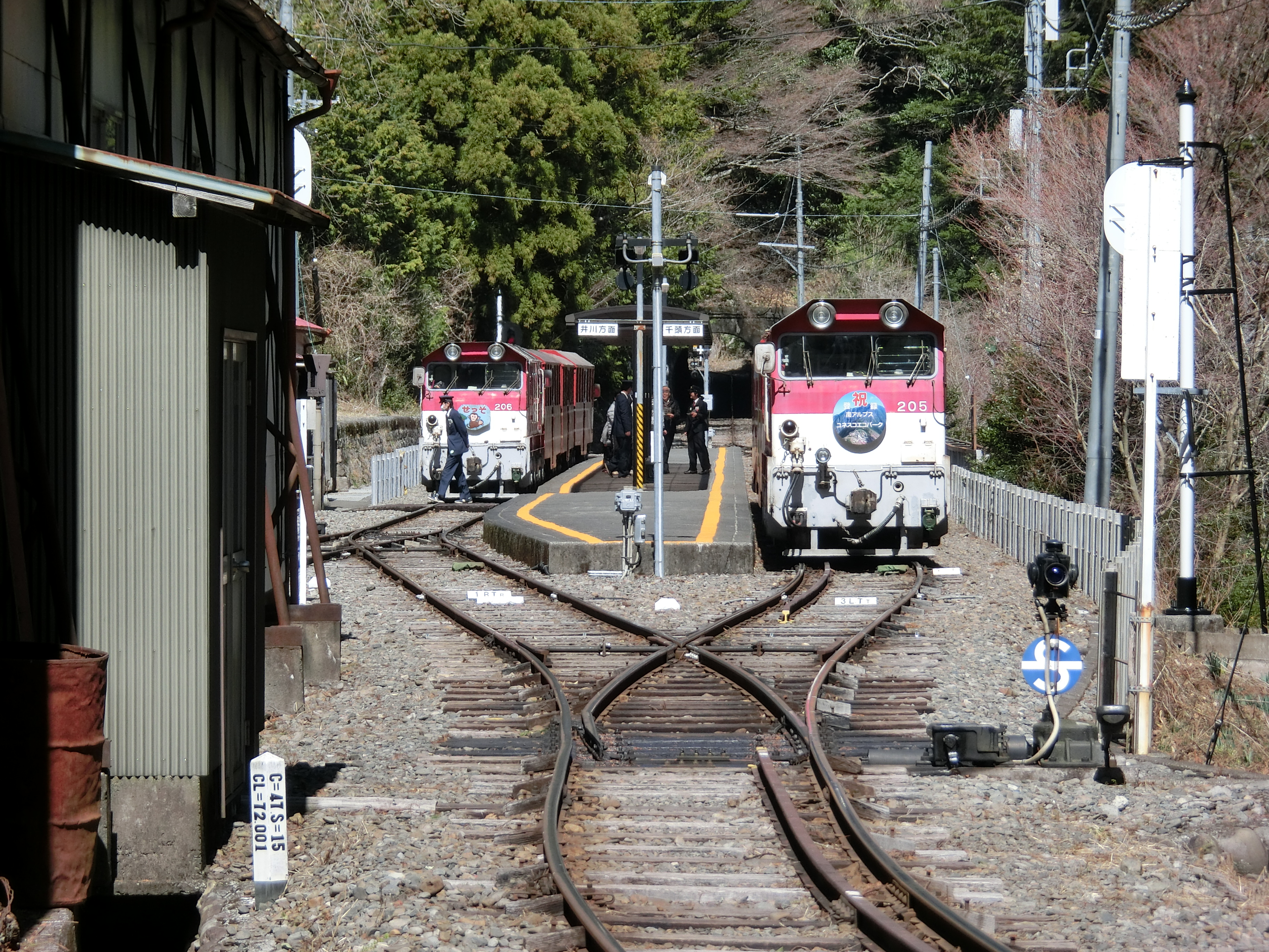 Sessokyo-Onsen Station